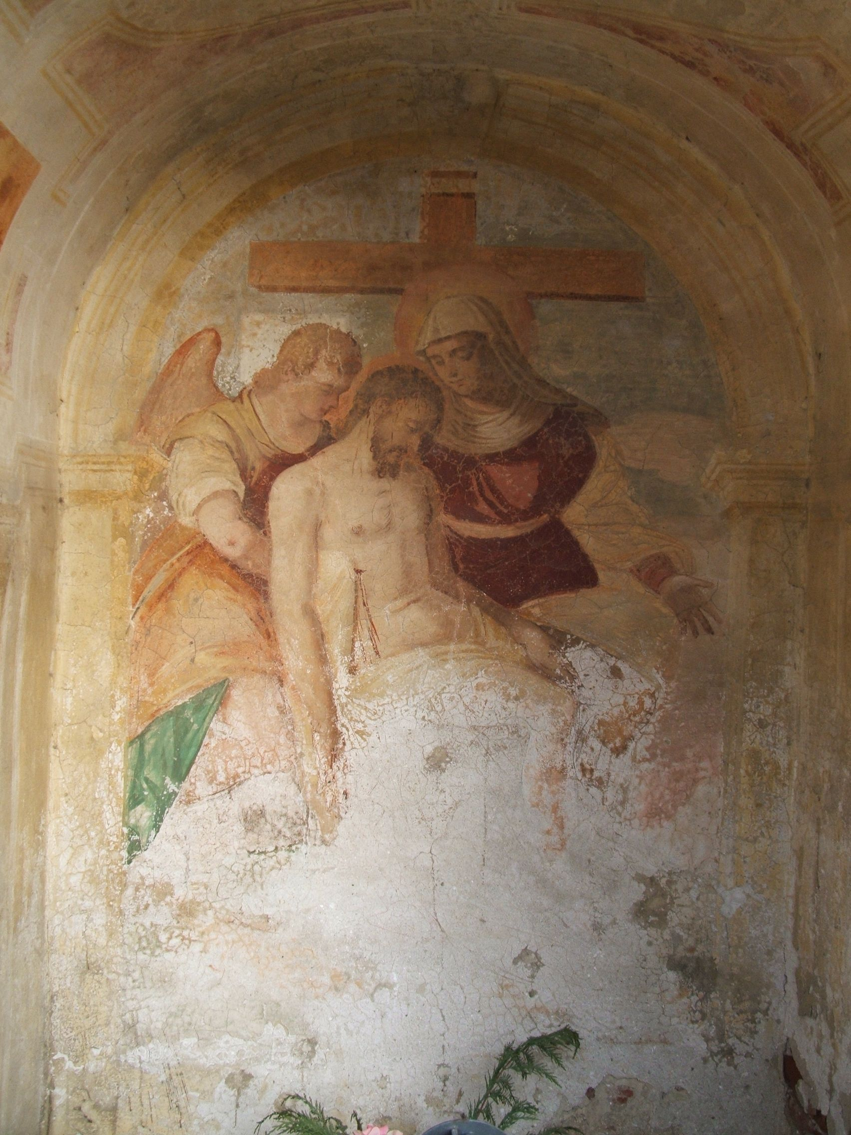 Votive capital in Zerman, Mogliano Veneto